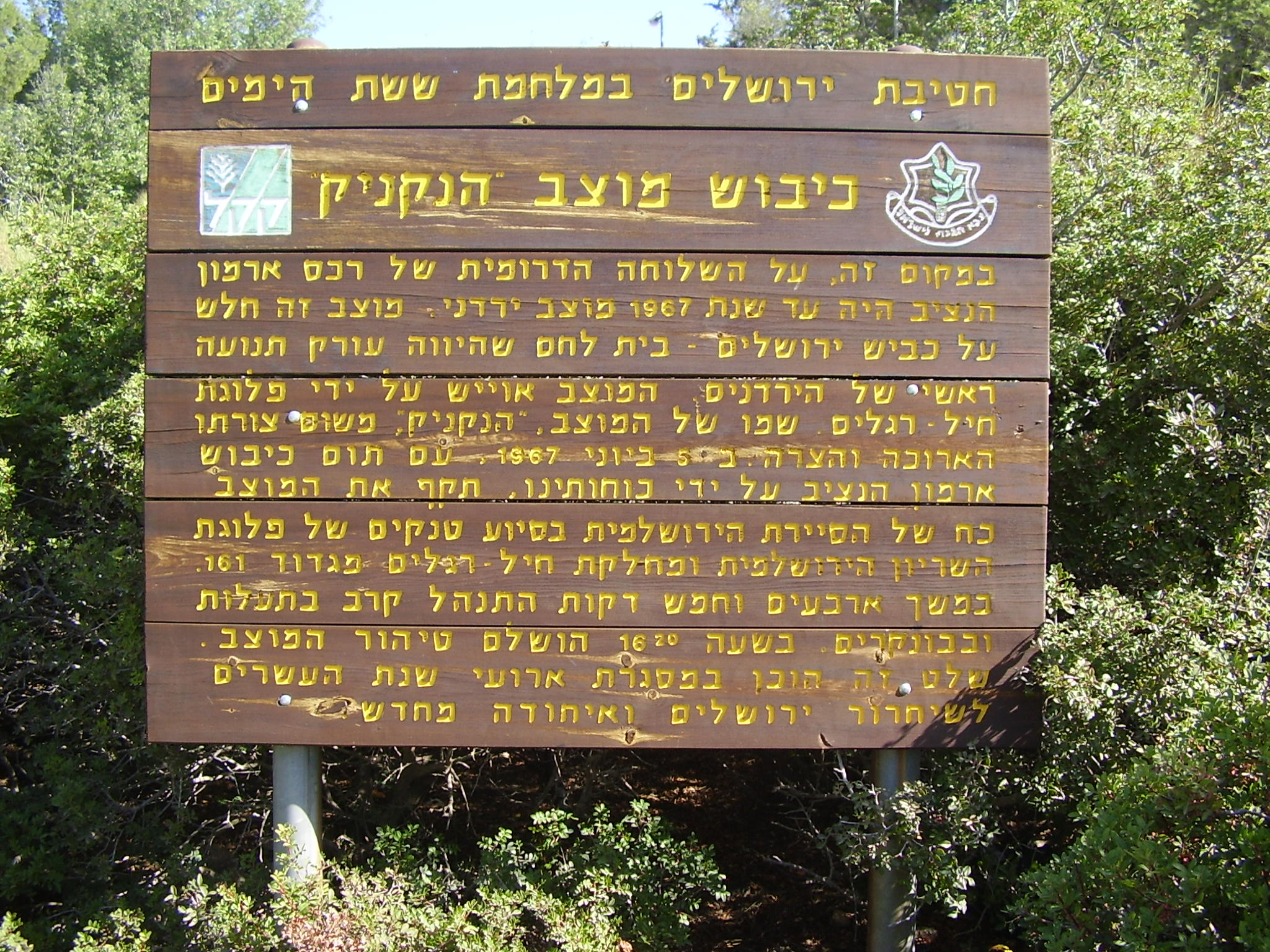 war memorial of the six days war in east talpiot, jerusalem שלט בתלפיות מזרח על כיבוש מוצב הנקניק במלחמת ששת הימים